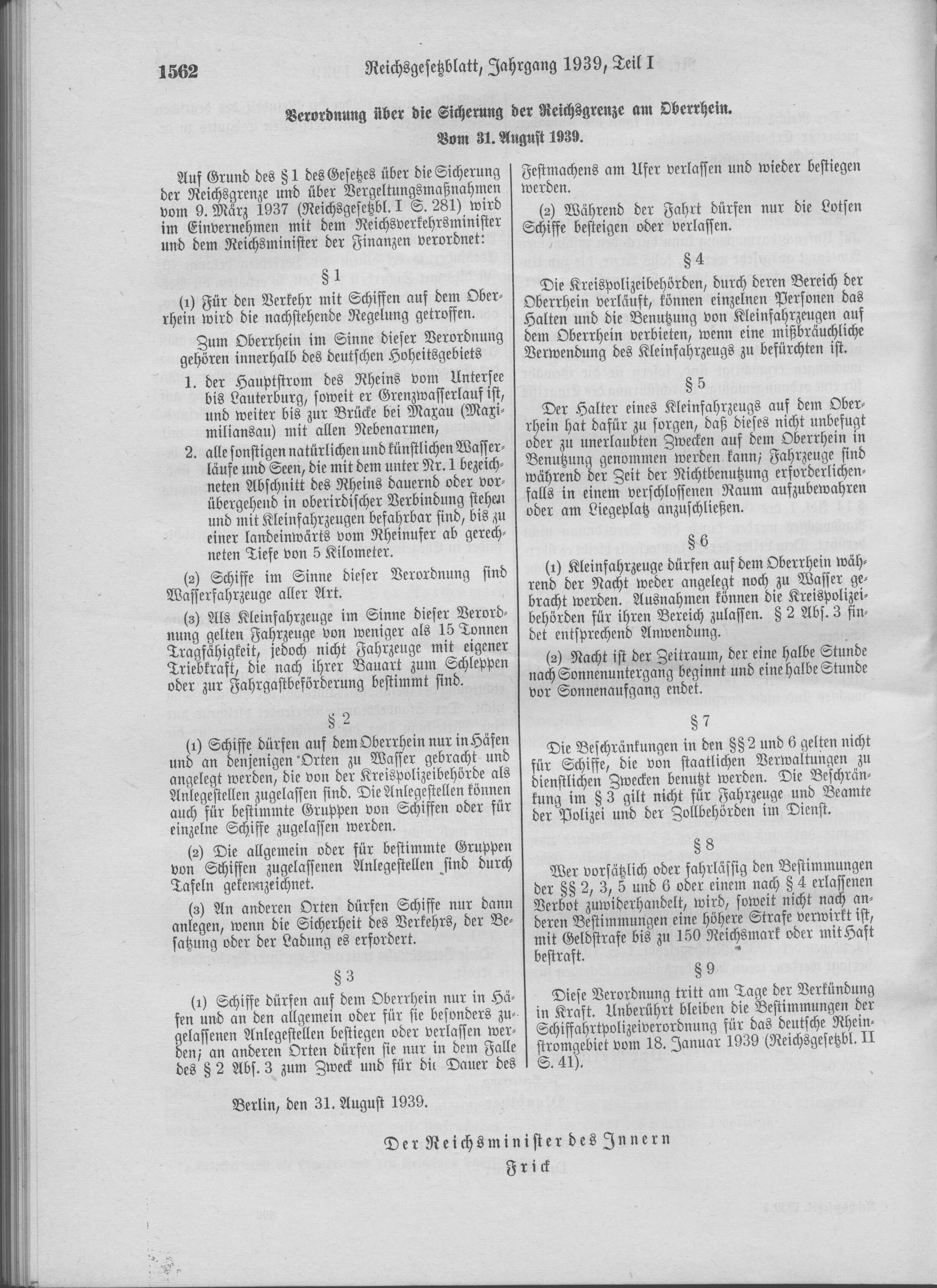 Scan from the Imperial Law Gazette of Germany, 1939, part 1